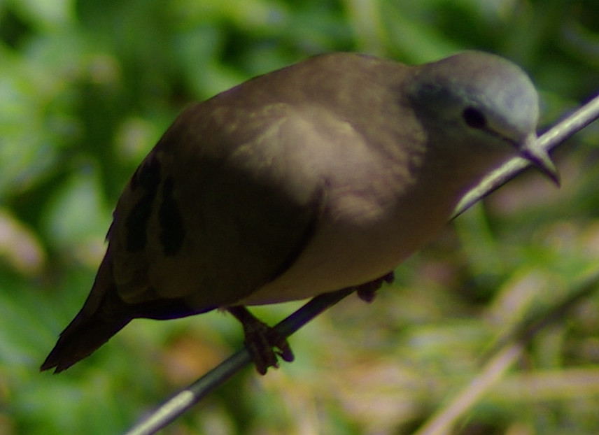 Emerald-spotted Wood Dove, Turtur chalcospilos, Mara Serena Lodge, Kenya. The time stamp is 10 hours too early.